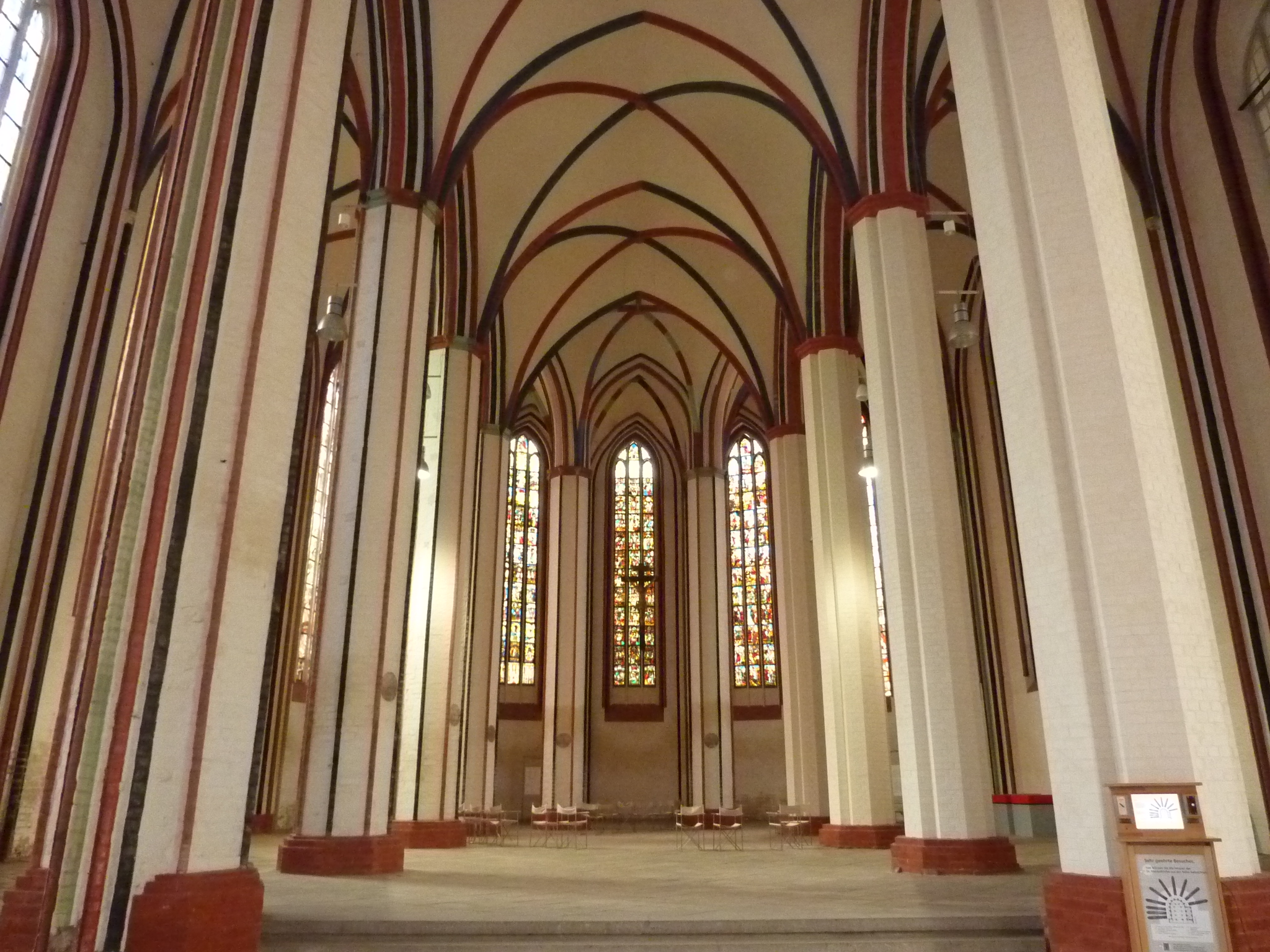 Interior of Marienkirche Frankfurt (Oder)